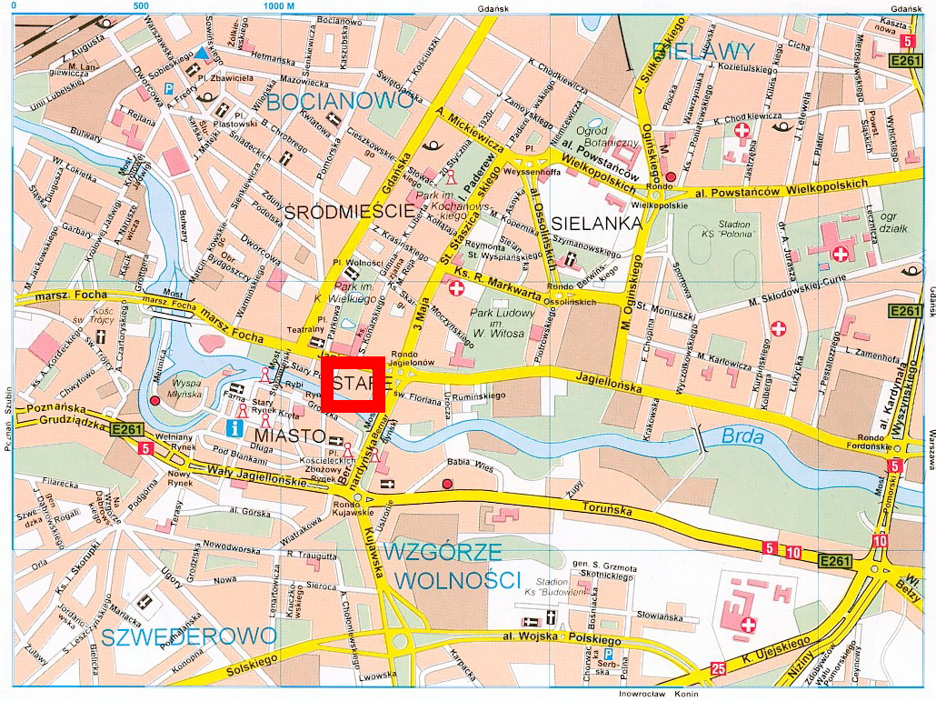 Location in Bydgoszcz